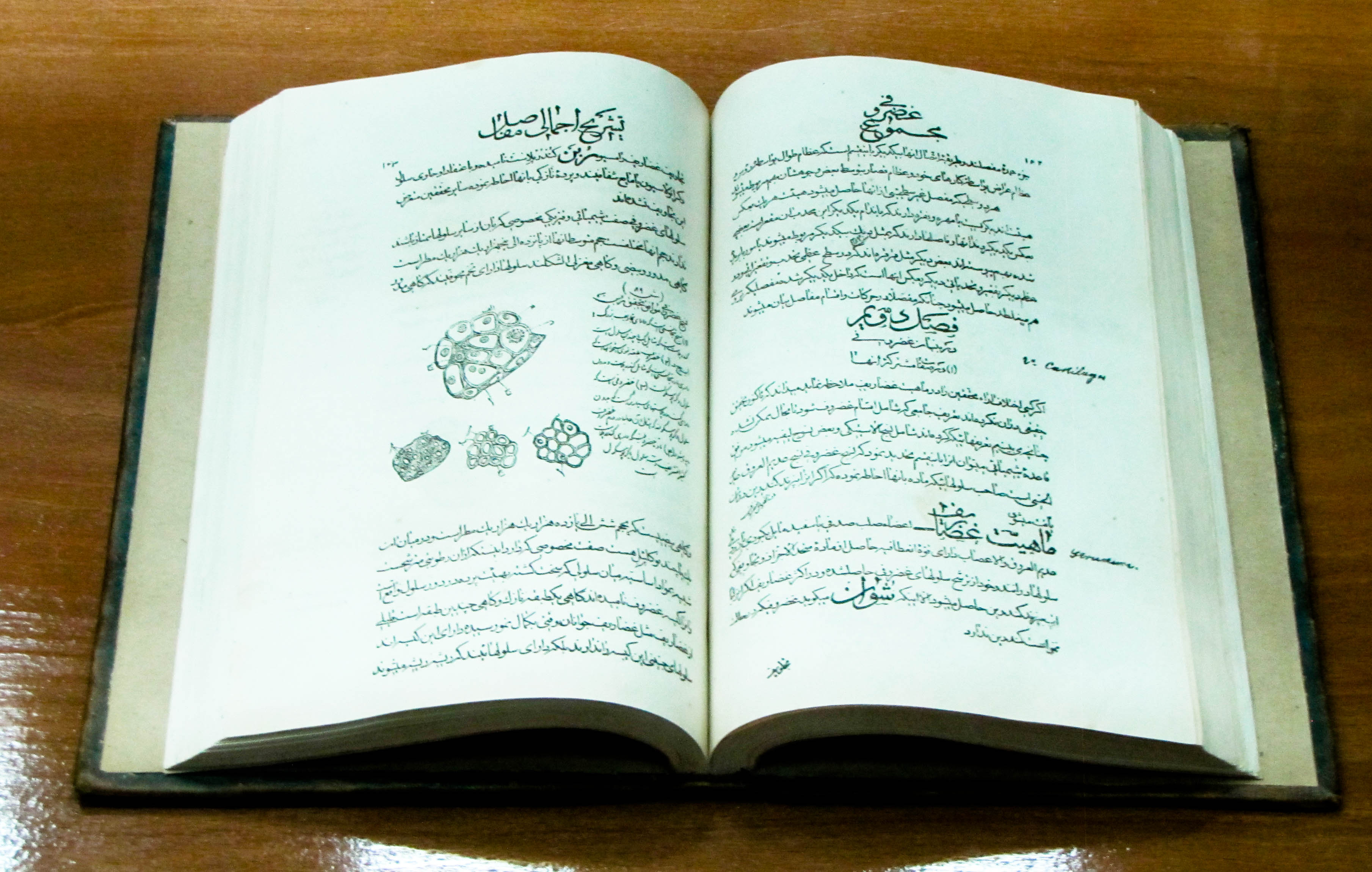 The Persian manuscript copy of The Canon of Medicine in Museum and Mausoleum of Avicenna, Hamedan, Iran.